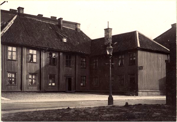 Vauxhall, an inn and mansion in Gothenburg, Sweden.